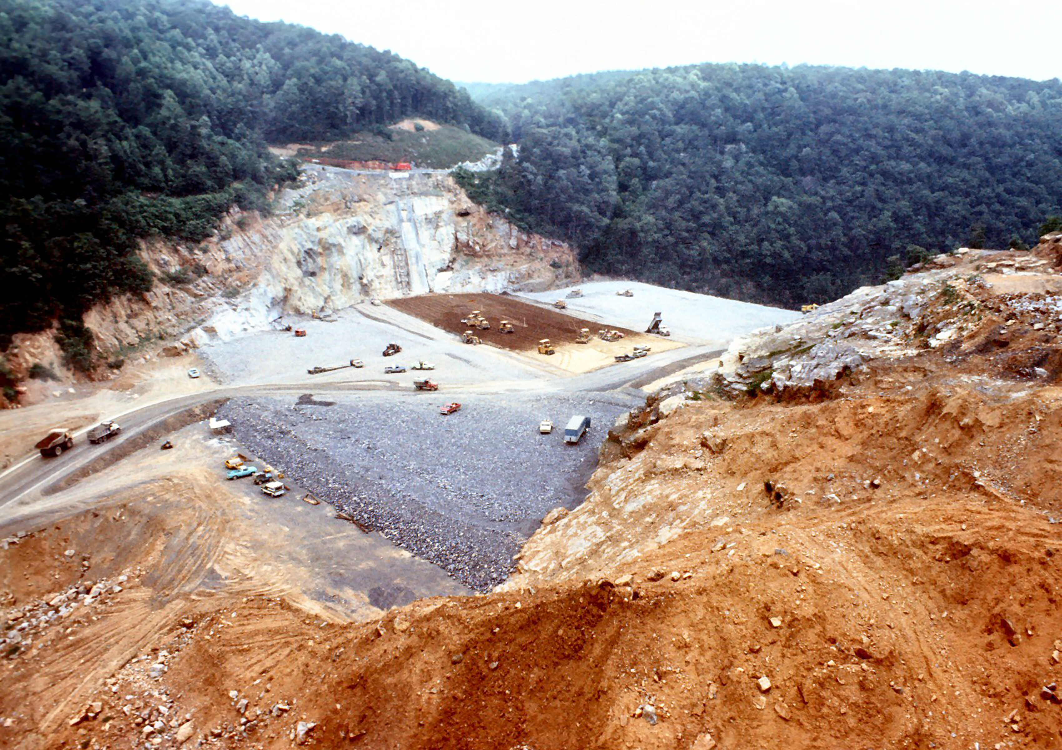 Gathright Dam under construction.